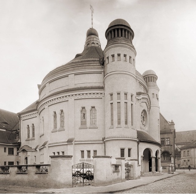 Jewish Community of Regensburg (1912)